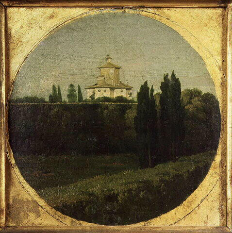 Le casino de l'Aurore de la villa Ludovisi